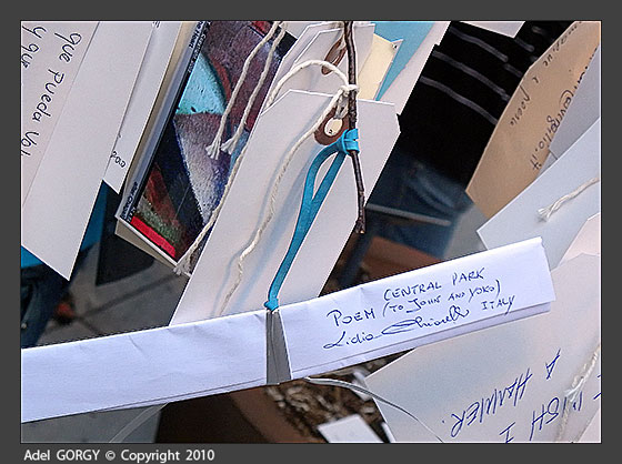 Poems and painted cards of the associate members of IMMAGINE&POESIA for Yoko Ono's Wish Tree at the Museum of Modern Art, New York